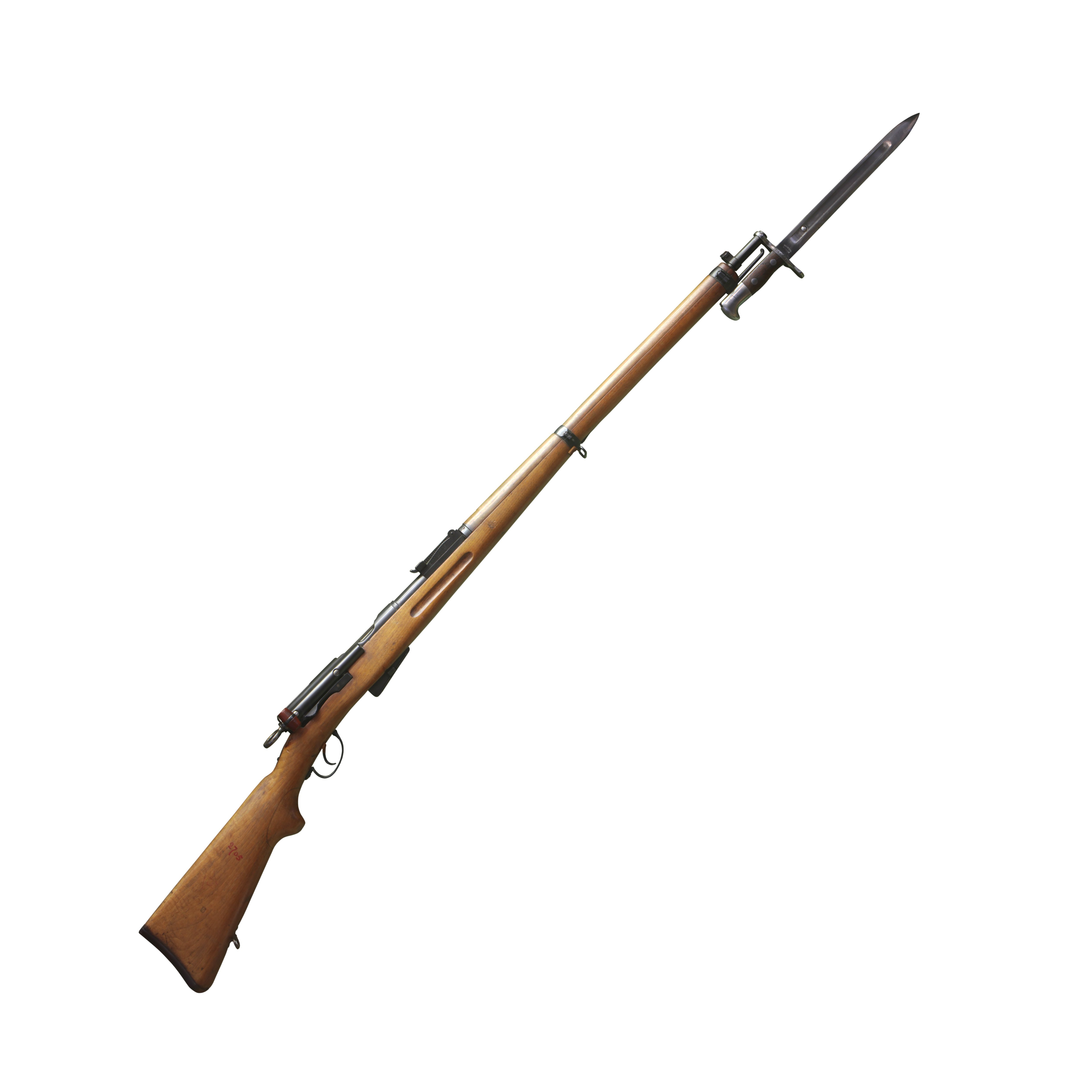 Schmidt-Rubin rifle. On display at Morges military museum.